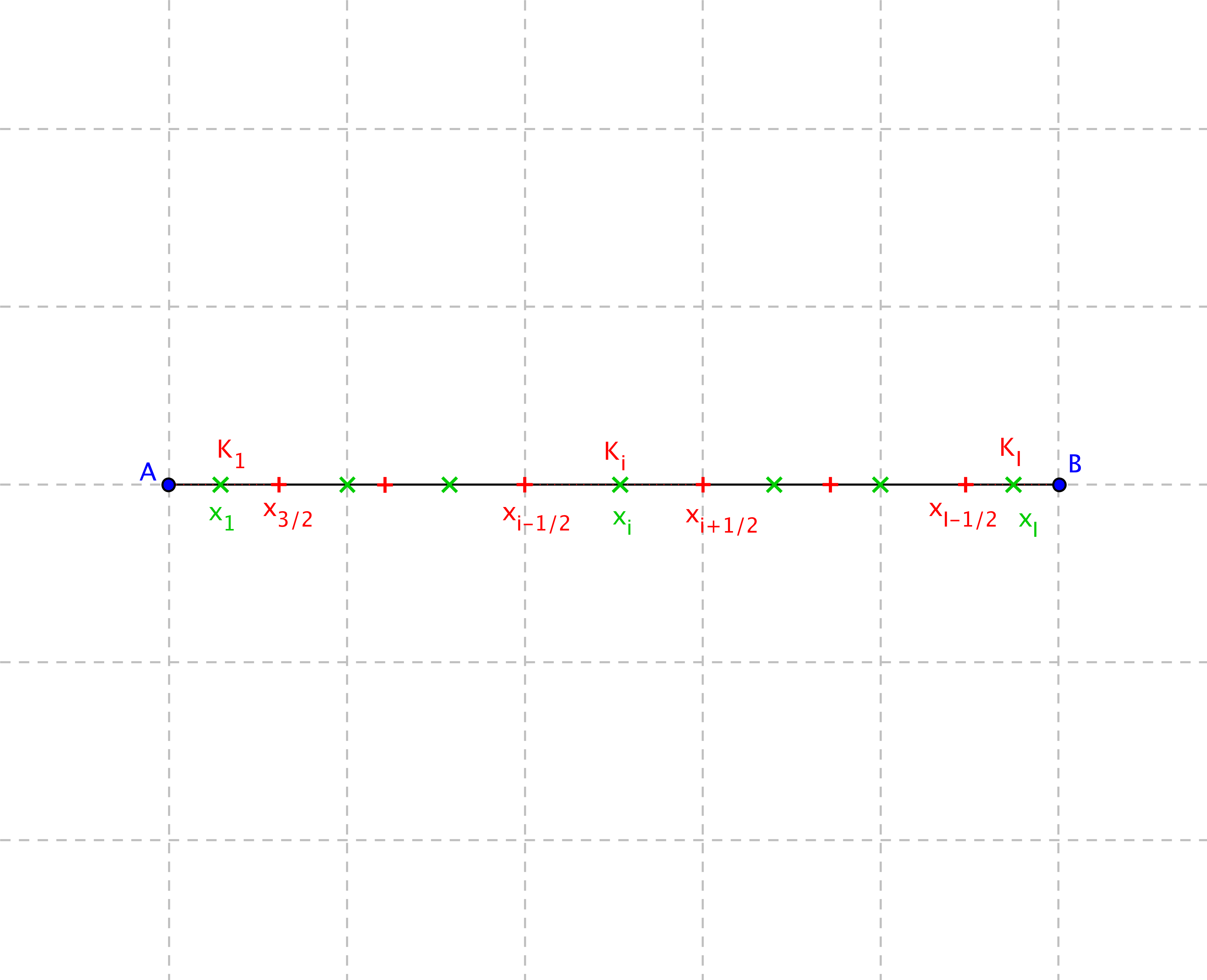 A mesh of segment [A,B] for finite-volume method.